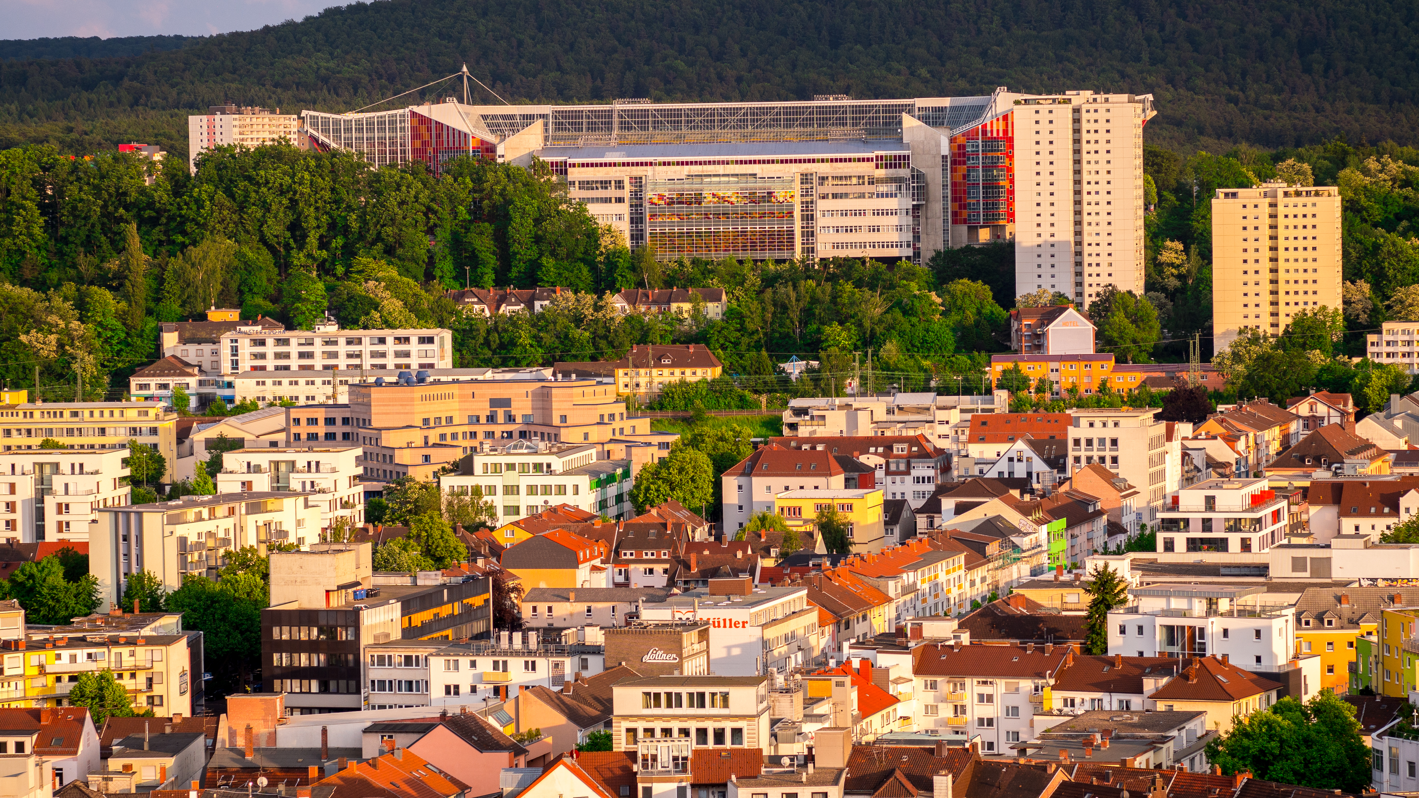 Vom Rathaus 21. stock